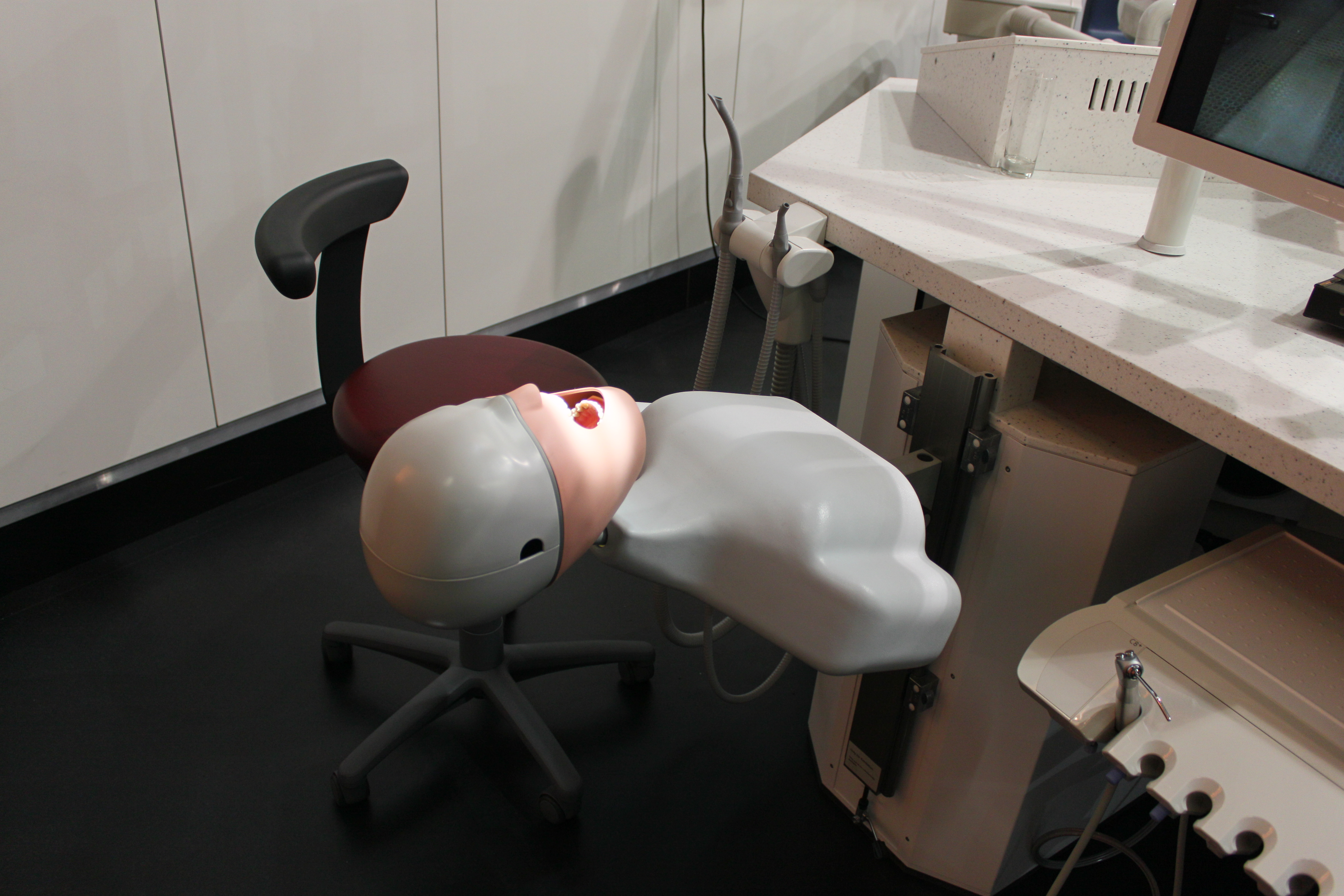 Phantom head; dentistry